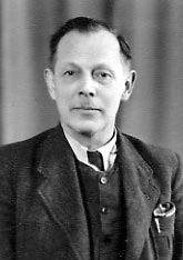 Dr. Carl Valentin Brand, Rothenbuch Bavaria